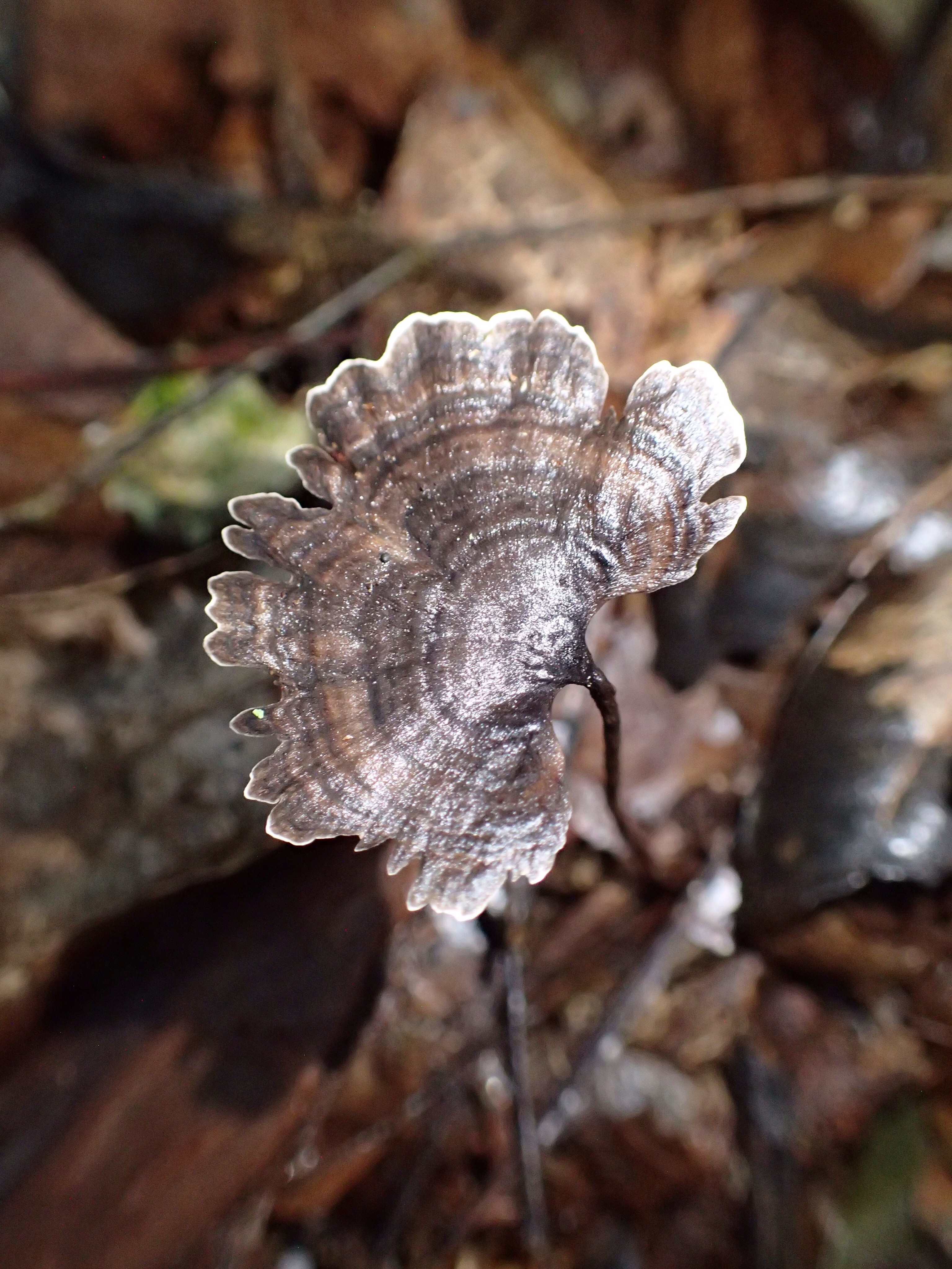 Fruit body of the polypore fungus Perenniporia stipitata; photographed in Cristalino Jungle Lodge, Alta Floresta, Mato Grosso, Brazil.